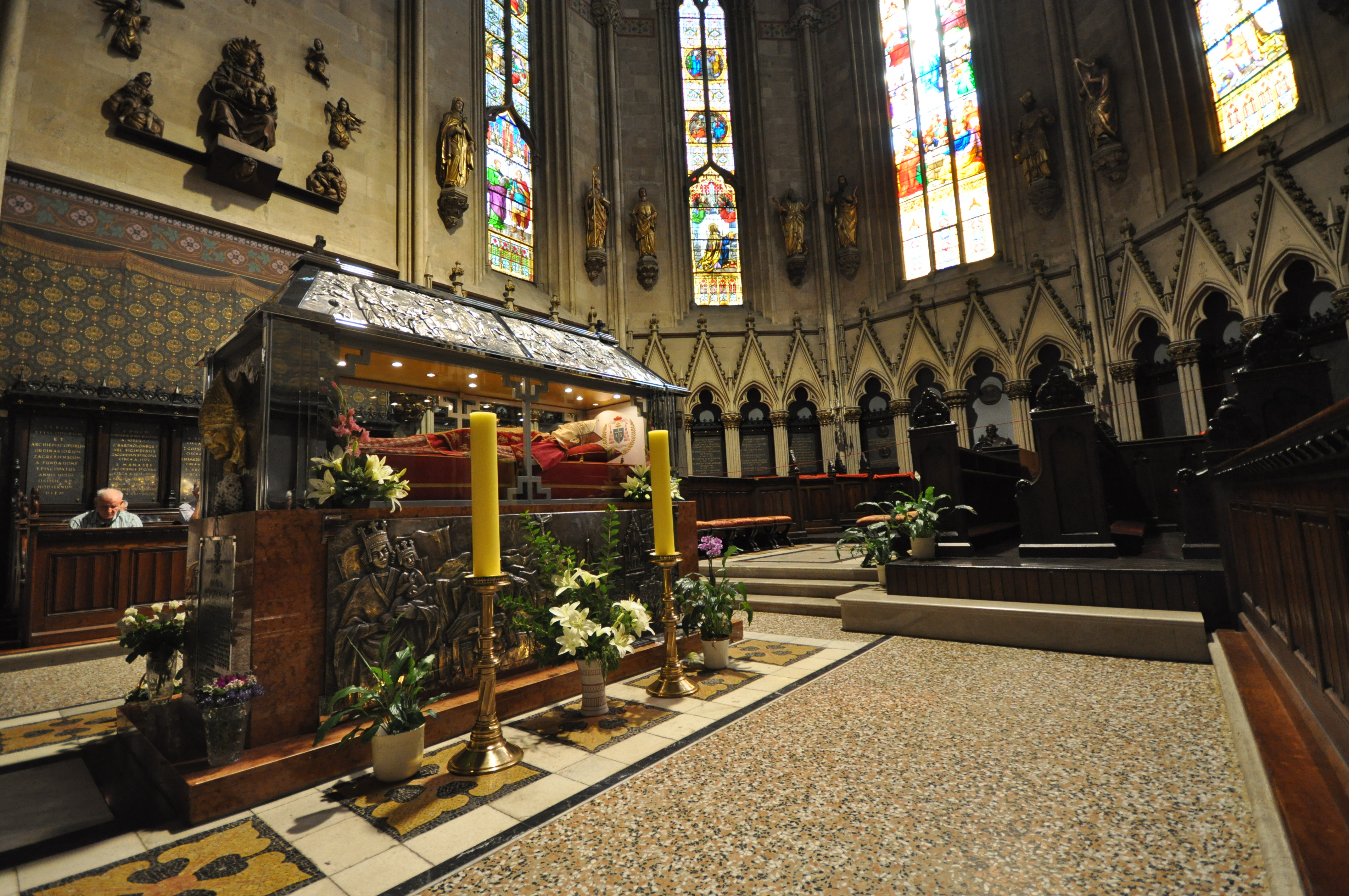 Aloysius Viktor Stepinac was a Croatian Catholic cardinal and Archbishop of Zagreb from 1937 to 1960. In 1998 he was declared a martyr and beatified by Pope John Paul II. Stepinac was ordained on October 26, 1930 by archbishop Giuseppe Palica, and in 1931 he became a parish curate in Zagreb. He established the archdiocesan branch of Caritas in 1931, and was appointed coadjutor to the see of Zagreb in 1934. When Archbishop Anton Bauer died on December 7, 1937, Stepinac succeeded him as the Archbishop of Zagreb. During World War II, on 6 April 1941, Yugoslavia was invaded by Nazi Germany, who established the Ustaše-led Independent State of Croatia (Croatian: Nezavisna Država Hrvatska, NDH). As archbishop of the puppet state's capital, Stepinac had close associations with the Ustaše leaders during the Nazi occupation, had issued proclamations celebrating the NDH, and welcomed the Ustaše leaders. Despite initially welcoming the Independent State of Croatia, Stepinac subsequently condemned the Nazi-aligned state's atrocities against Jews and Serbs. He objected to the persecution of Jews and Nazi laws, helped Jews and others to escape and criticized Ustaše atrocities in front of Zagreb Cathedral in 1943